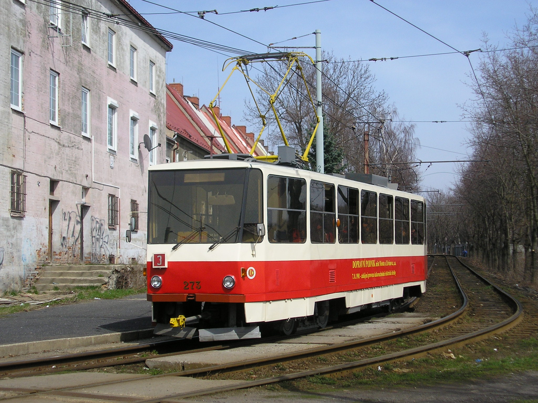 Prototype of Tatra T5B6 tram in Litvínov, Czech Republic